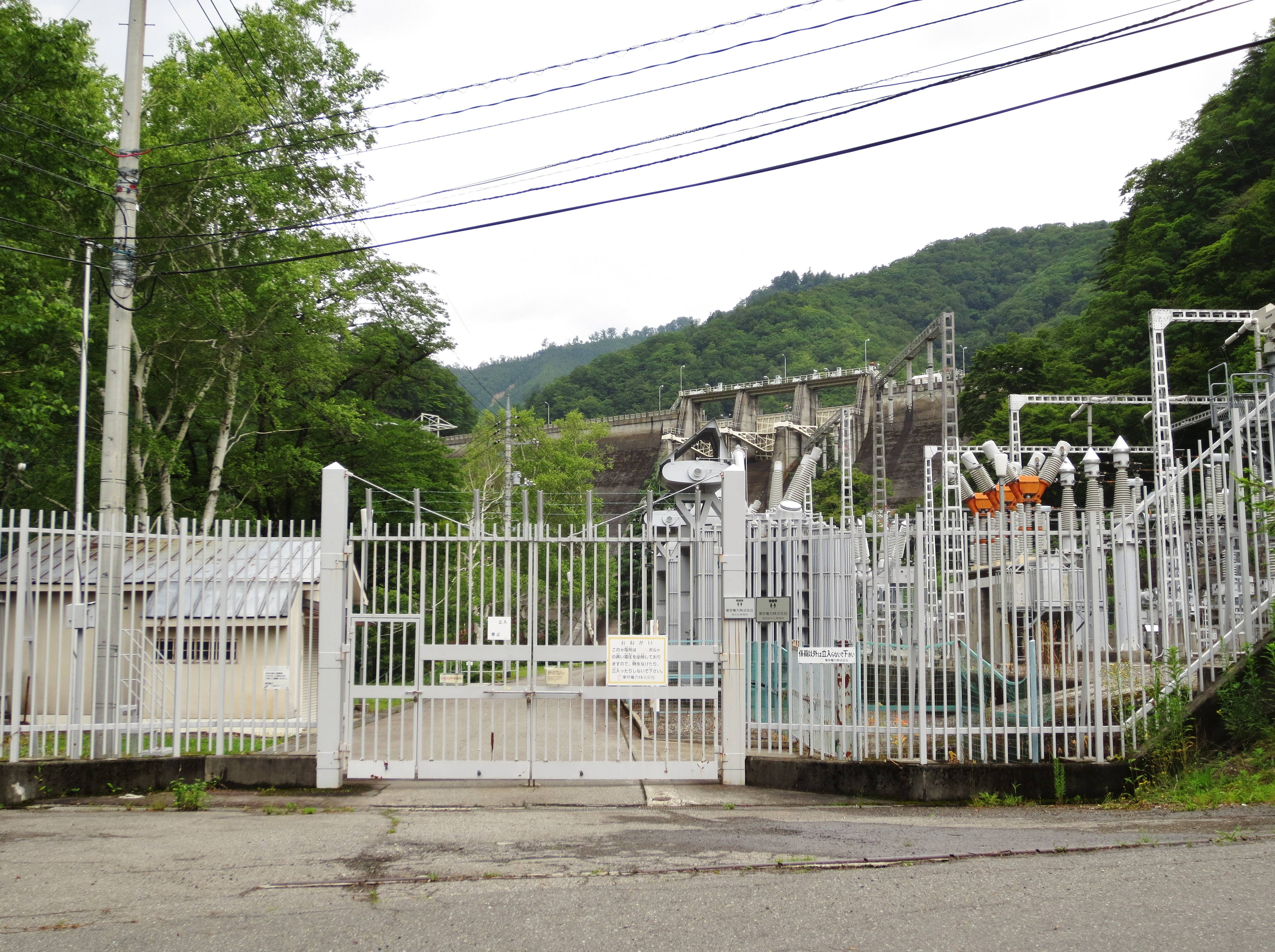 Sudagai Power Station and Sudagai Dam.